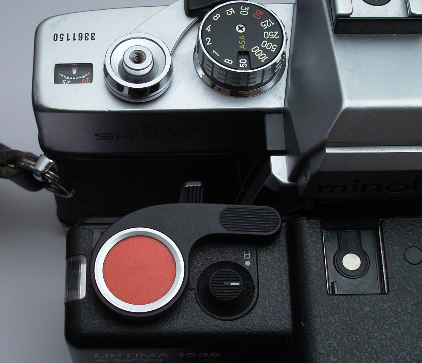 Release buttons of two different cameras. The upper one being a fully mechanical single-lens-reflex camera, the Minolta SRT303b, with visible thread mount for remote wire release. Below the ""Sensor" button of a viewfinder camera, the AGFA Optima 1535 electronic.